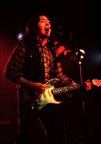 Rory Gallagher performing in Dublin, Ireland, circa 1980